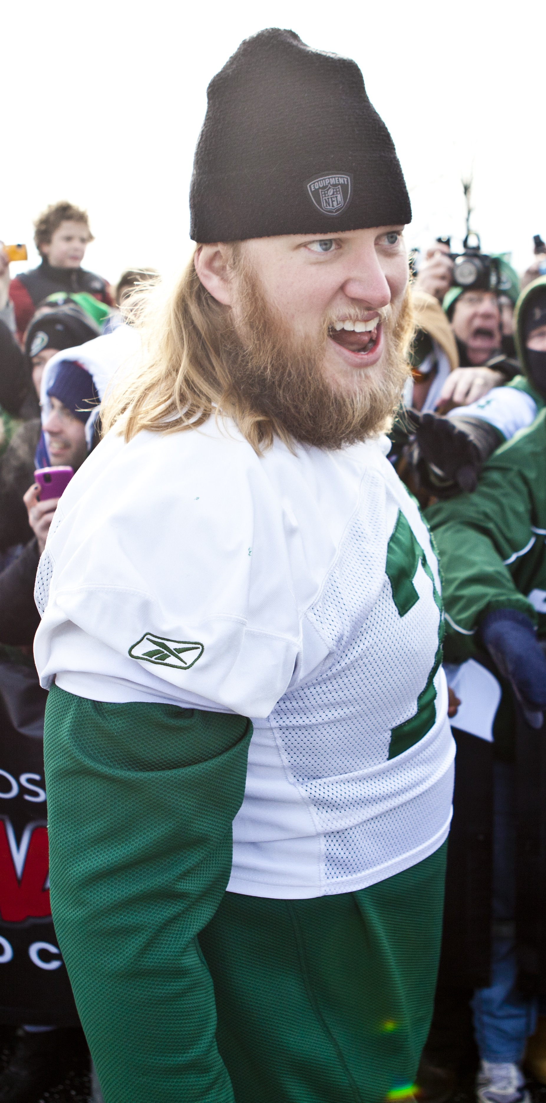 Center, Nick Mangold, at the New York Jets Pep Rally Florham Park New Jersey 2011 at the Atlantic Health Training Center.